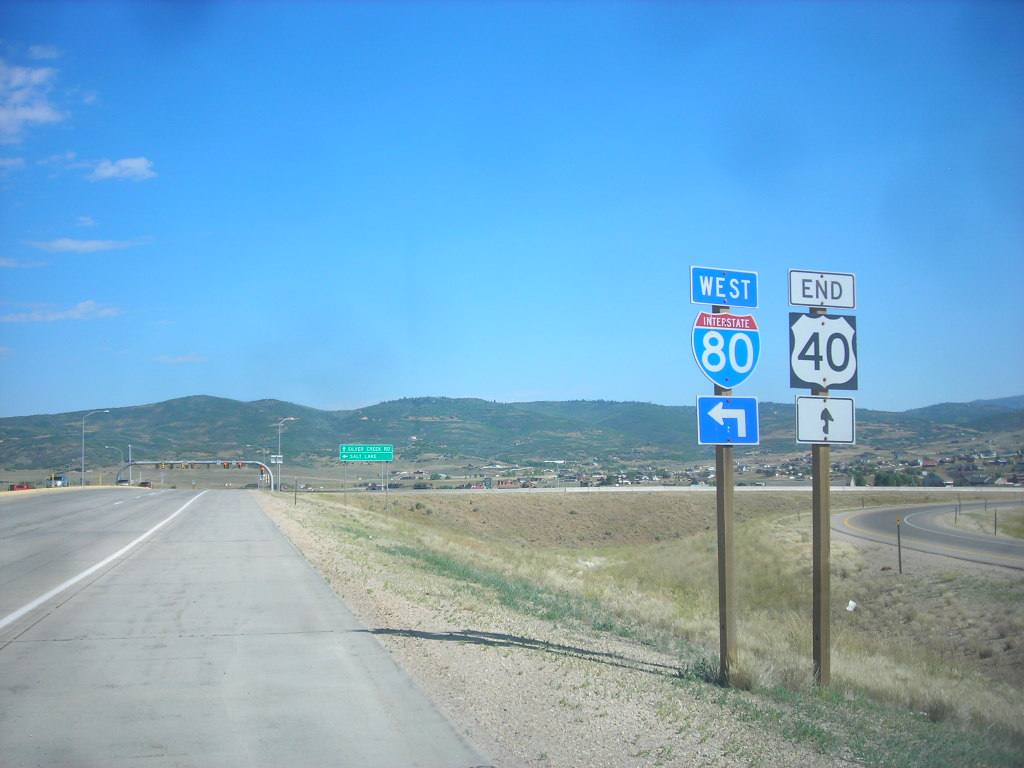 The signed eastern terminus of U.S. Route 40 (the National Road) at Interstate 80 in Park City, Utah, which is visible in the background.